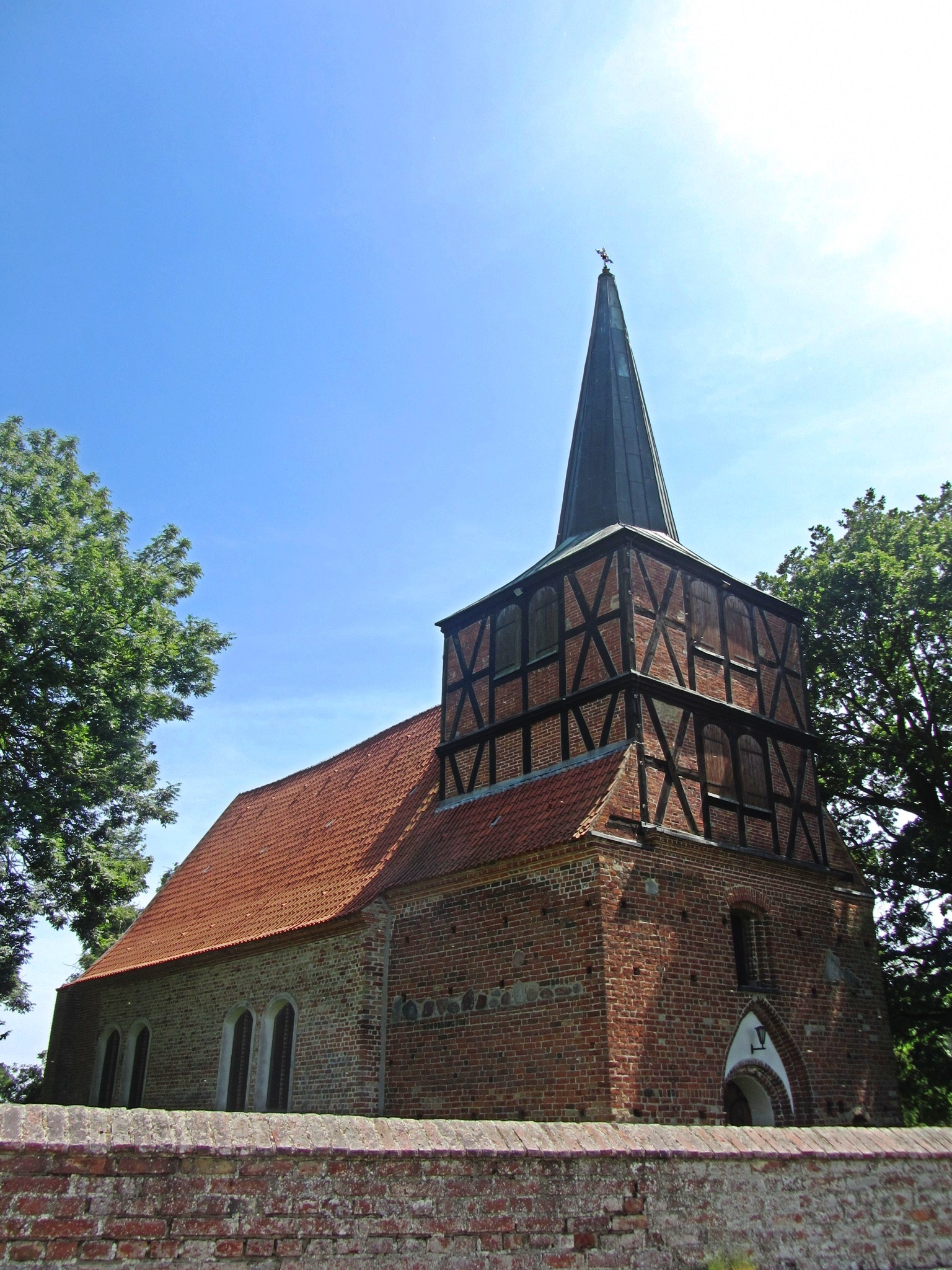 Church in Mönchow, district Vorpommern-Greifswald, Mecklenburg-Vorpommern, Germany